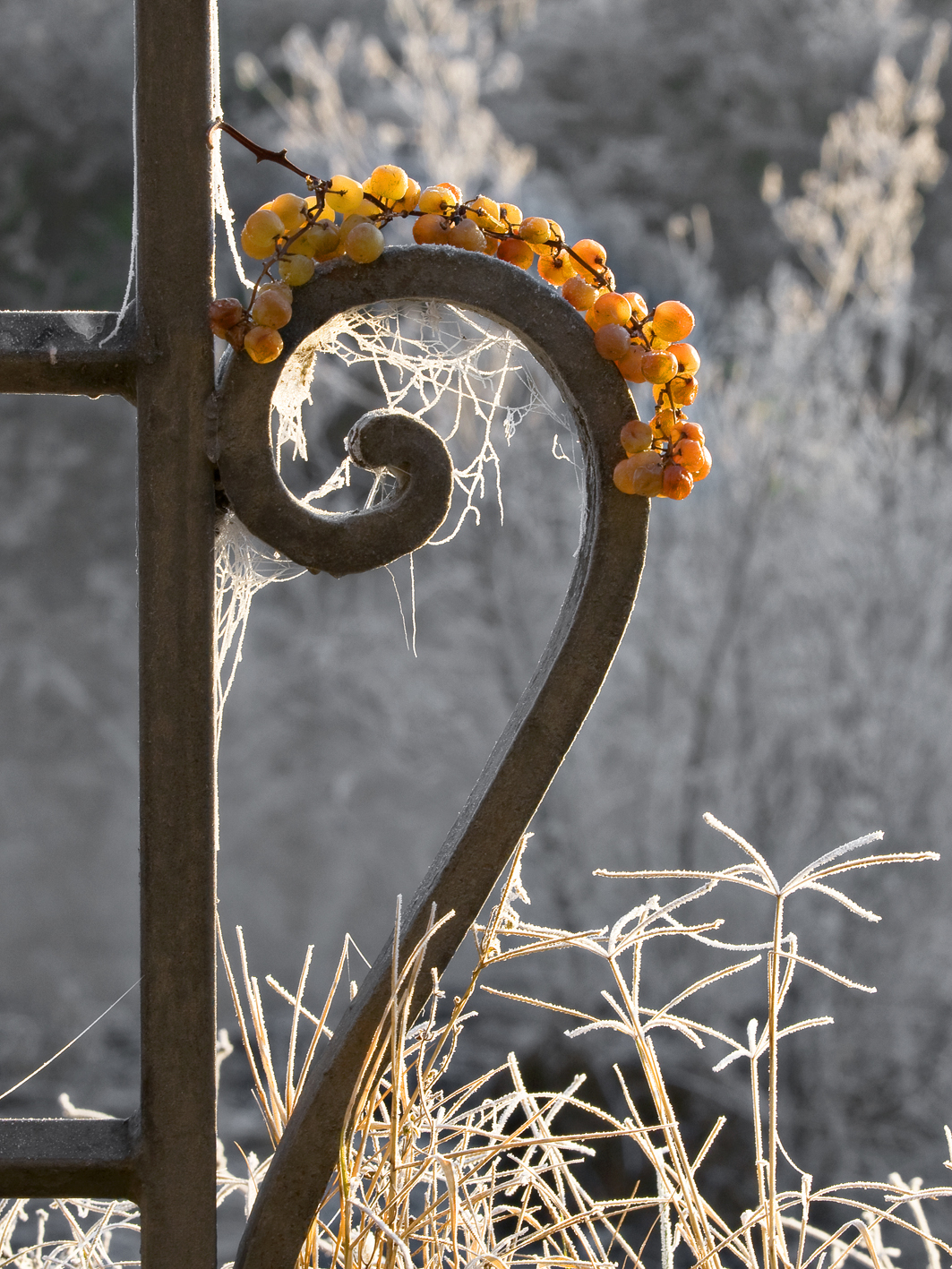 The dried Garganega for the Recioto di Soave